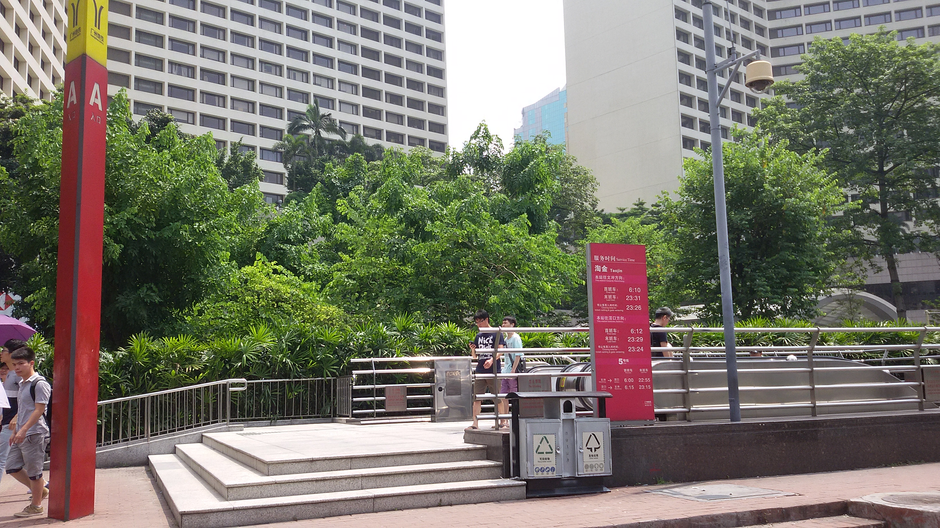 Exit A, Taojin Station, Guangzhou Metro 粵語: 廣州地鐵淘金站嘅A出入口